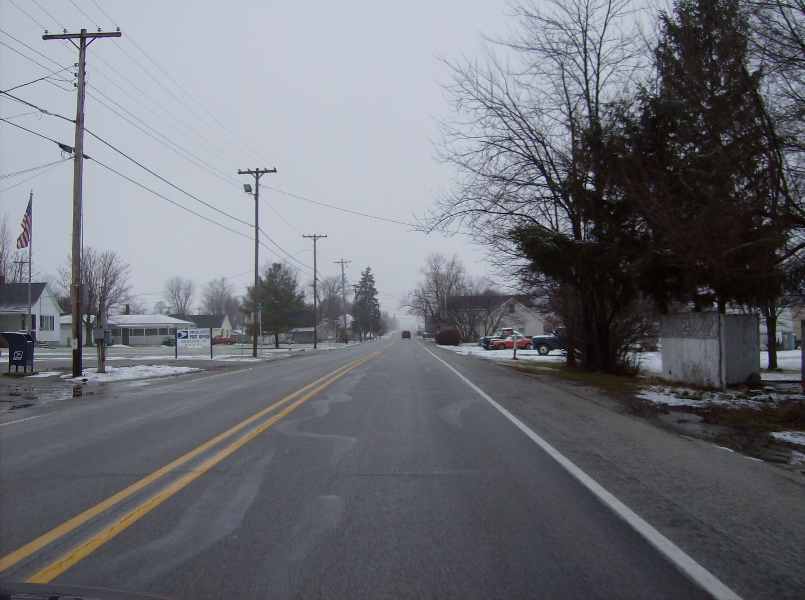 Approaching the railroad crossing along westbound State Road 26 in central Oakford, an unincorporated community in southwestern Taylor Township, Howard County, Indiana, United States.